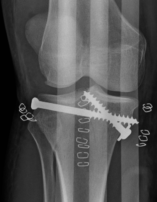 Repair of a tibial plateau fracture